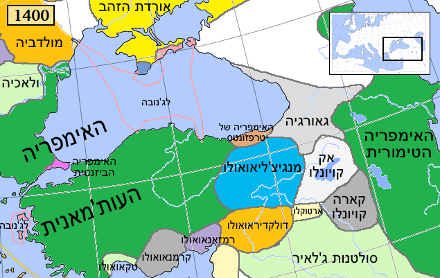 Trebizond and surrounding states in Anatolia/Caucasus in AD 1400. (Partially based on Euratlas map of Europe, 1400.)